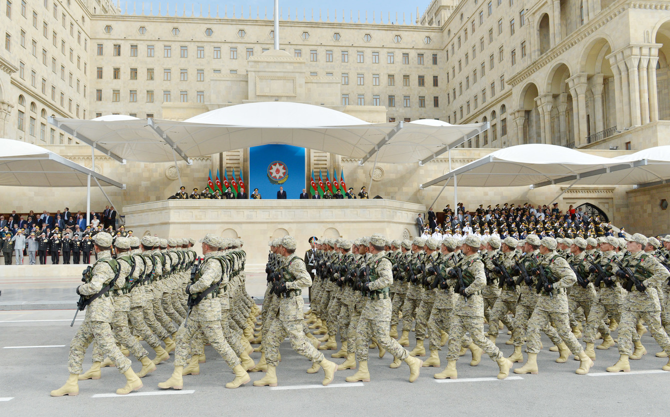 Ilham Aliyev attended the official military parade on the occasion of the 95th anniversary of the Armed Forces